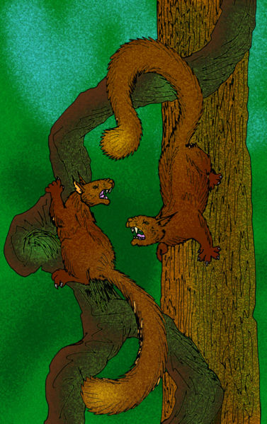 My reconstruction of the Eocene cimolestid Kopidodon macrognathus (C) Stanton F. Fink